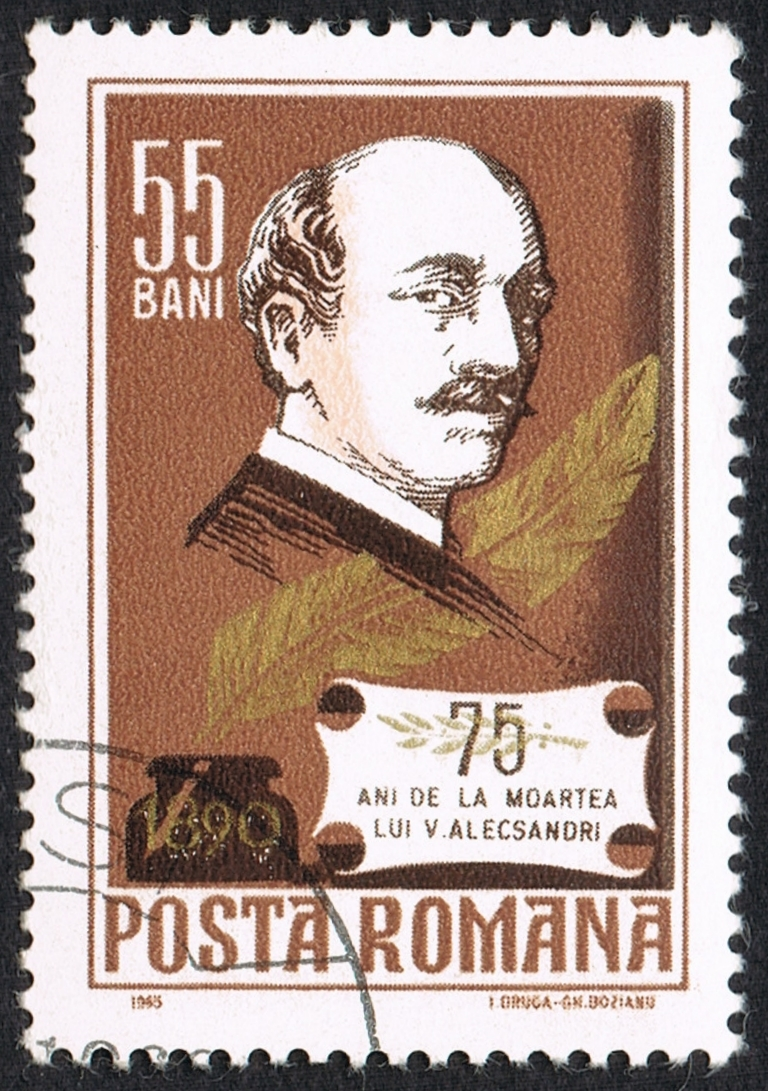 scanned stamp from Rumanian post (Posta Romana). 75 anniversary of the day of death of Vasile Alecsandri, writer; Date: 1965-10-09 ; Michel stamp catalogue (East-Europe part 4) number: 2441 ; 1000000 stamps printed